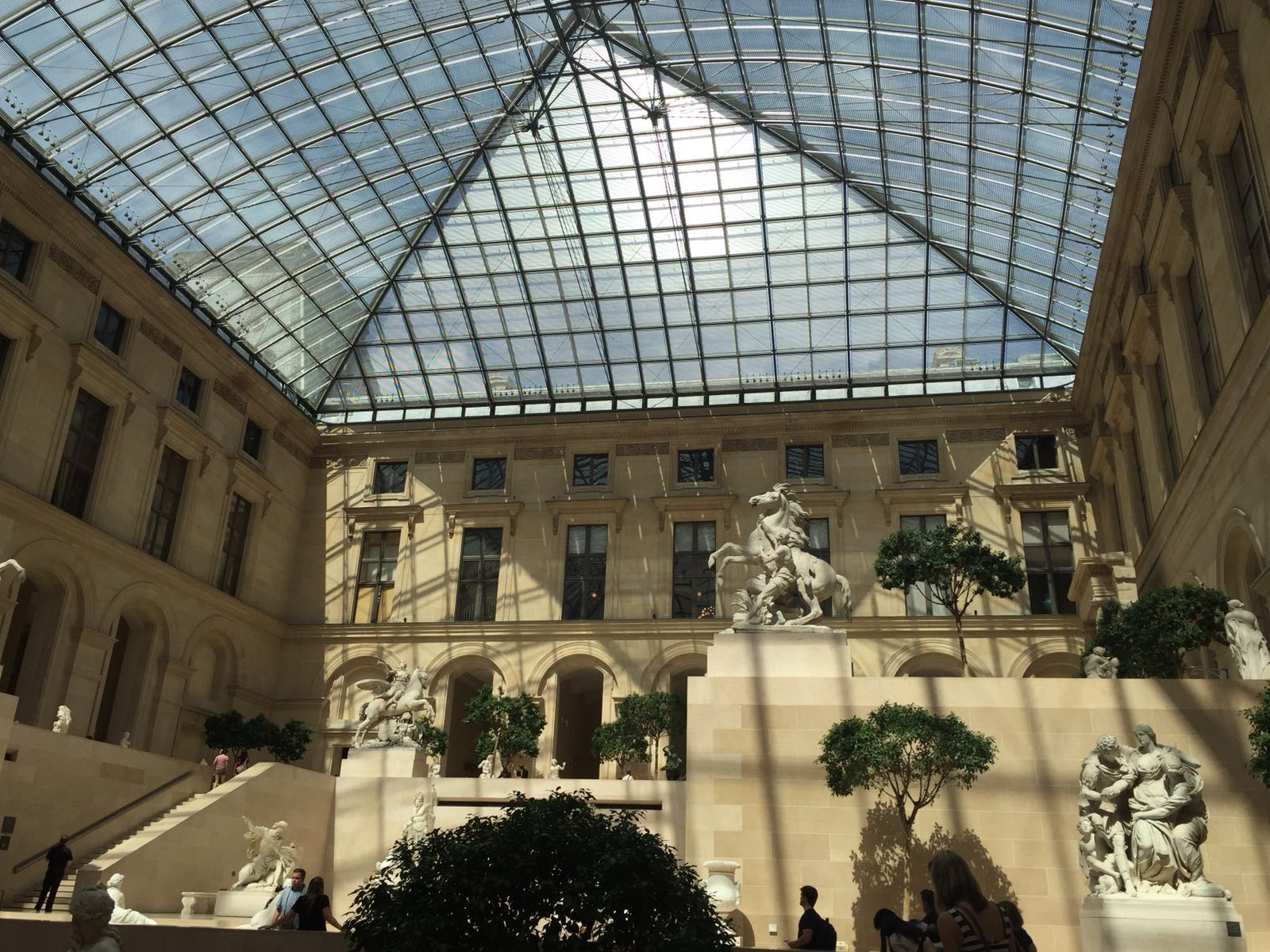 Cour Marly, Richelieu wing, Louvre, Paris